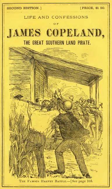 Pitts, J.R.S. 1874. Life and Bloody Career of the Executed Criminal, James Copeland. Pilot Publishing Co., Jackson, MS. 246 p. (Available at: Internet Archive [1]) Cover of Pitts' 1874 book on the life of James Copeland.